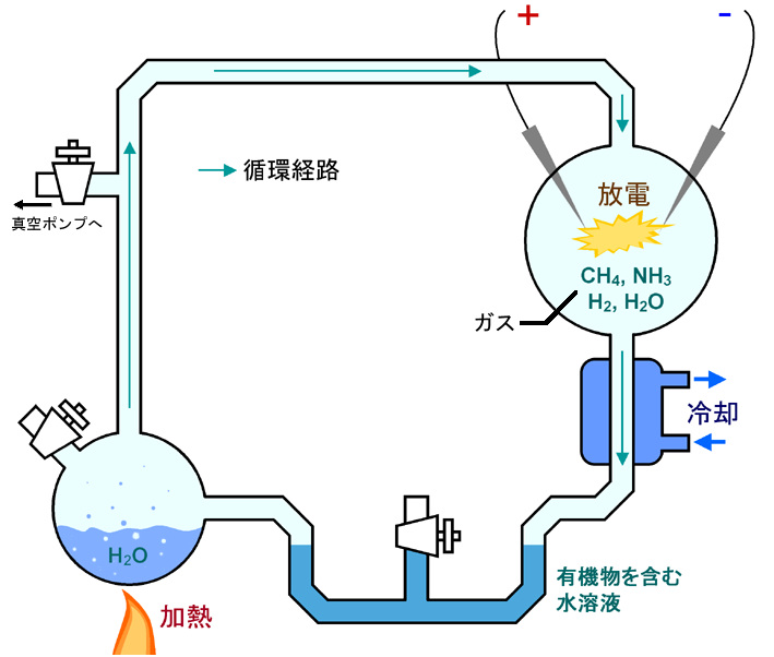 Figure of Miller-Urey experiment (1953). (Japanese version)